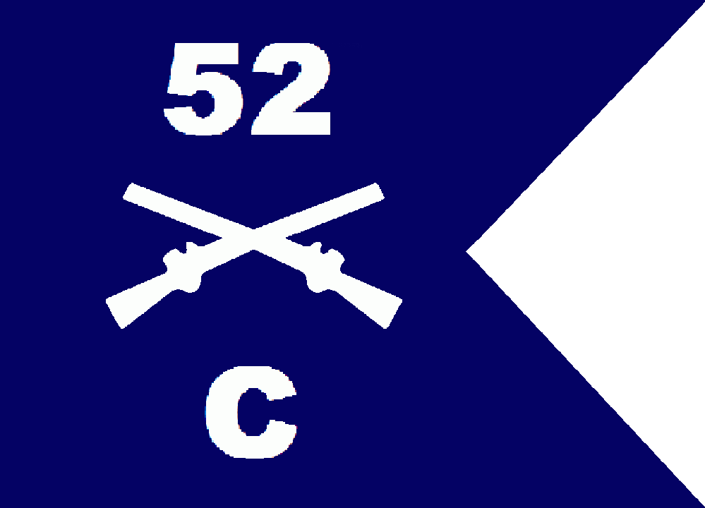 C Company, 52nd Infantry Guidon